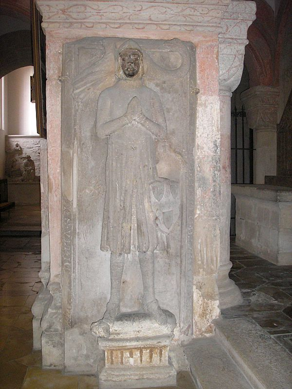 St. Vitus, Ellwangen a.d. Jagst, Baden-Wuerttemberg, Germany. Tombstone of the knight Ulrich von Ahelfingen (+ 1339). Own photo, Aug. 2006